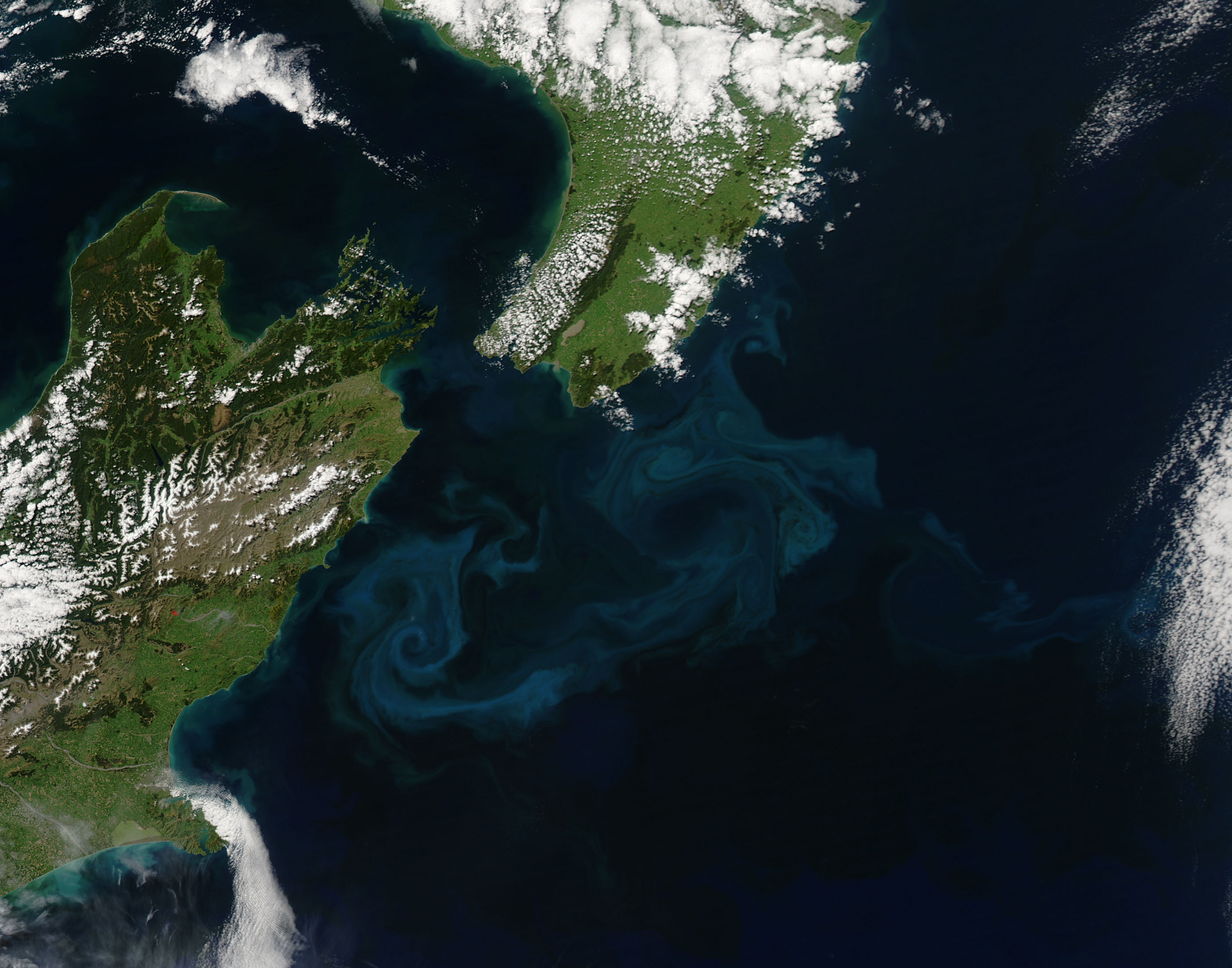 Off the east coast of New Zealand, cold rivers of water that have branched off from the Antarctic Circumpolar Current flow north past South Island and converge with warmer waters flowing south past North Island. The surface waters of this meeting place are New Zealand's most biologically productive. This image of the area shows the basis for that productivity: large blooms of plantlike organisms called phytoplankton. Phytoplankton use chlorophyll and other pigments to absorb sunlight for photosynthesis, and when they grow in large numbers, they change the way the ocean surface reflects sunlight. Caught up in eddies and currents, the blooms create intricate patterns of blues and greens that spread across thousands of square kilometres of the sea surface. Especially bright blue areas may indicate the presence of phytoplankton called coccolithophores, which are coated with calcium-carbonate scales that are very reflective. The duller greenish-brown areas of the bloom may be diatoms, which have a silica-based covering.